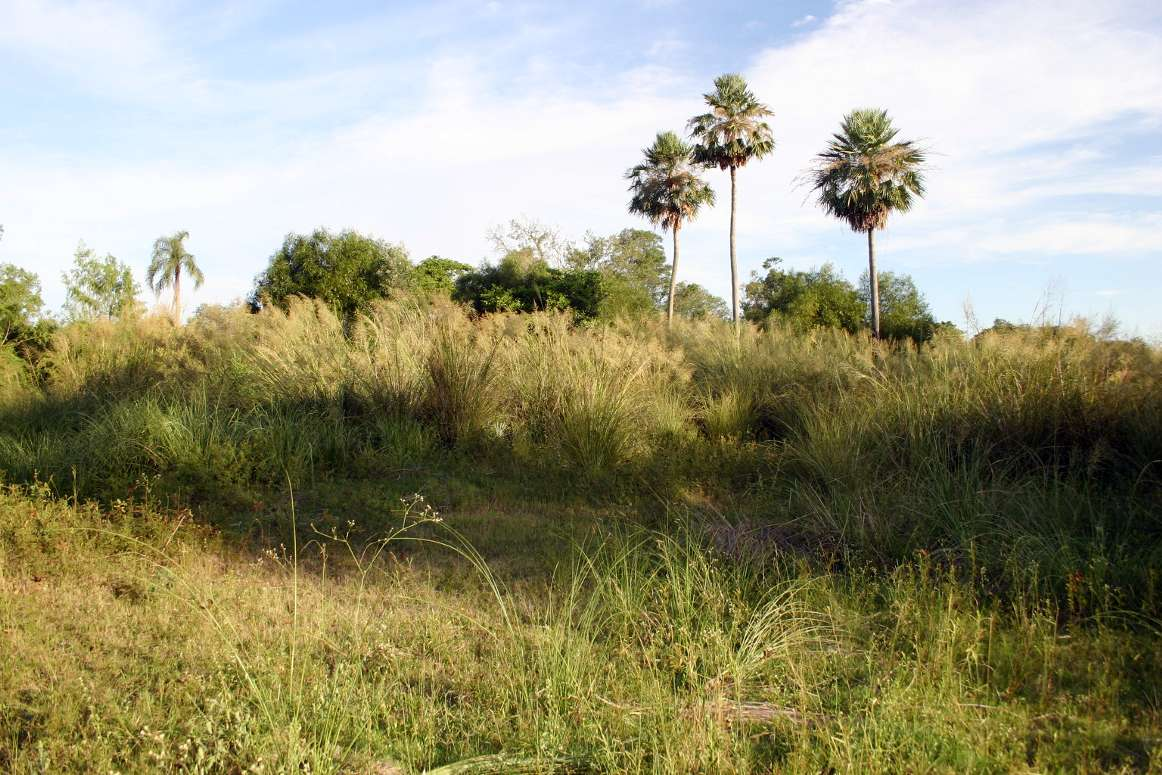 Sabana: Formación de hierbas altas alternadas con bosques y palmares.